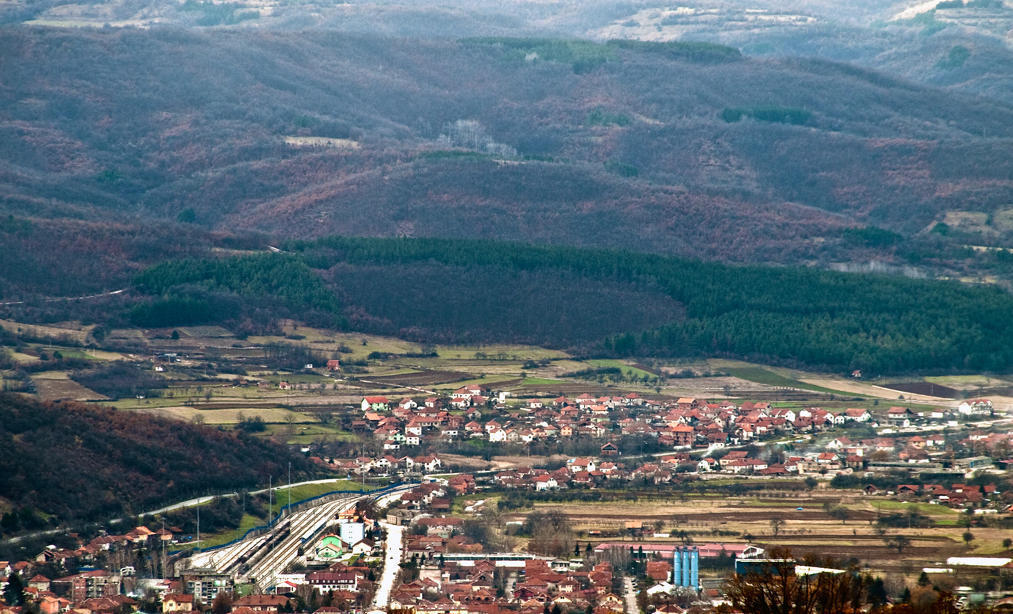 Panormic view of Dimitrovgrad (Tsaribrod) from Kozaritsa hill